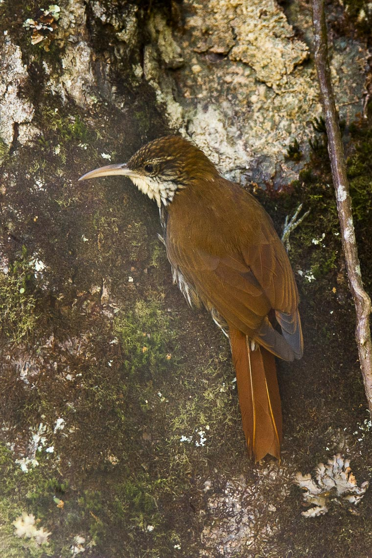 White-throated Woodcreeper - Itatiaia - Brazil_MG_0265